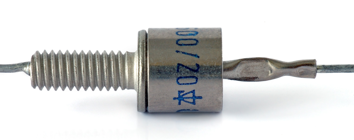 This image shows a zener diode.